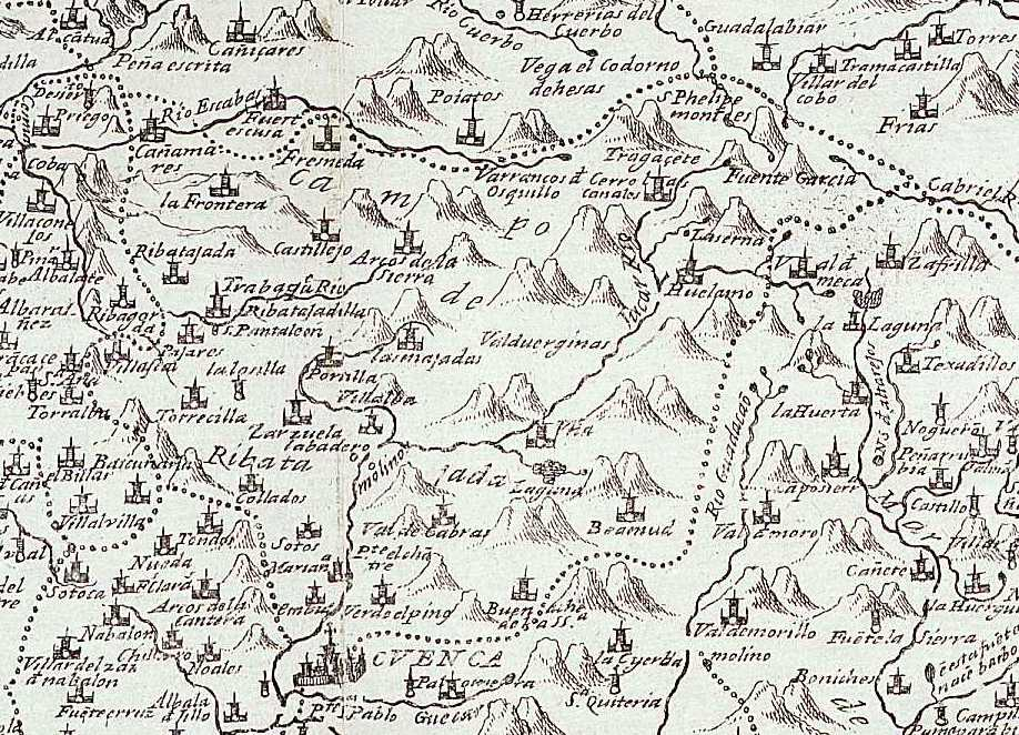 Fragment of the map of the Bishopric of Cuenca of 1962 where there appear the historical regions of the province of Cuenca, included "Campo de Ribatajada" (Ribatajada's Field)